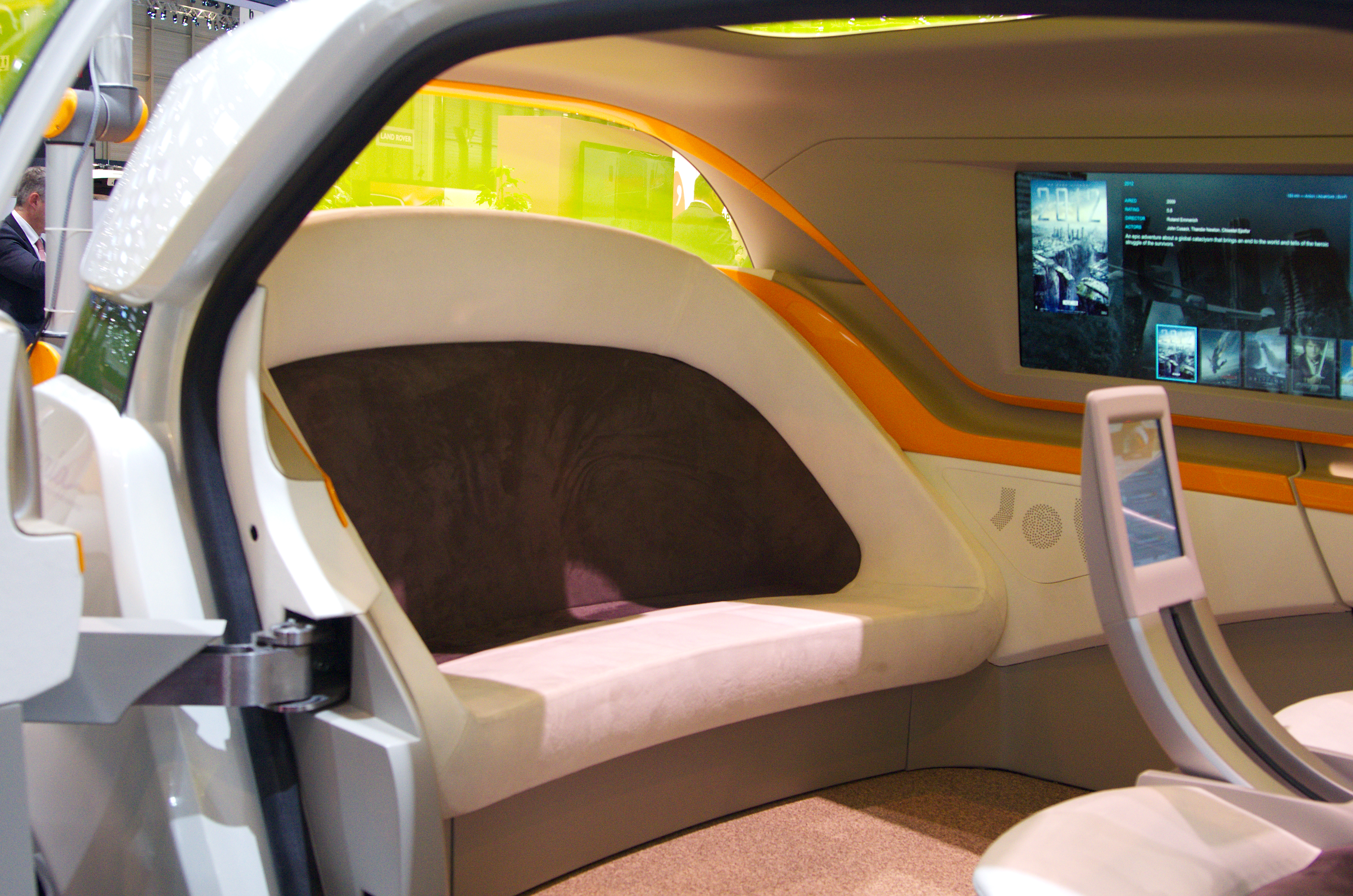 Geneva MotorShow 2013 - Akka Link&Go interior